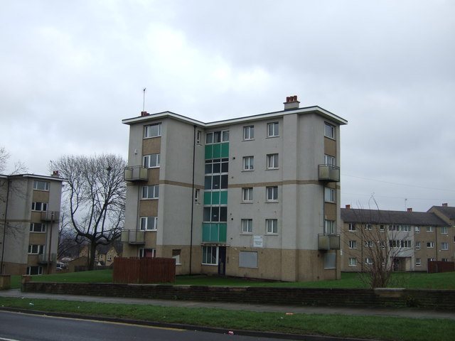 Block of flats, Thorp Garth